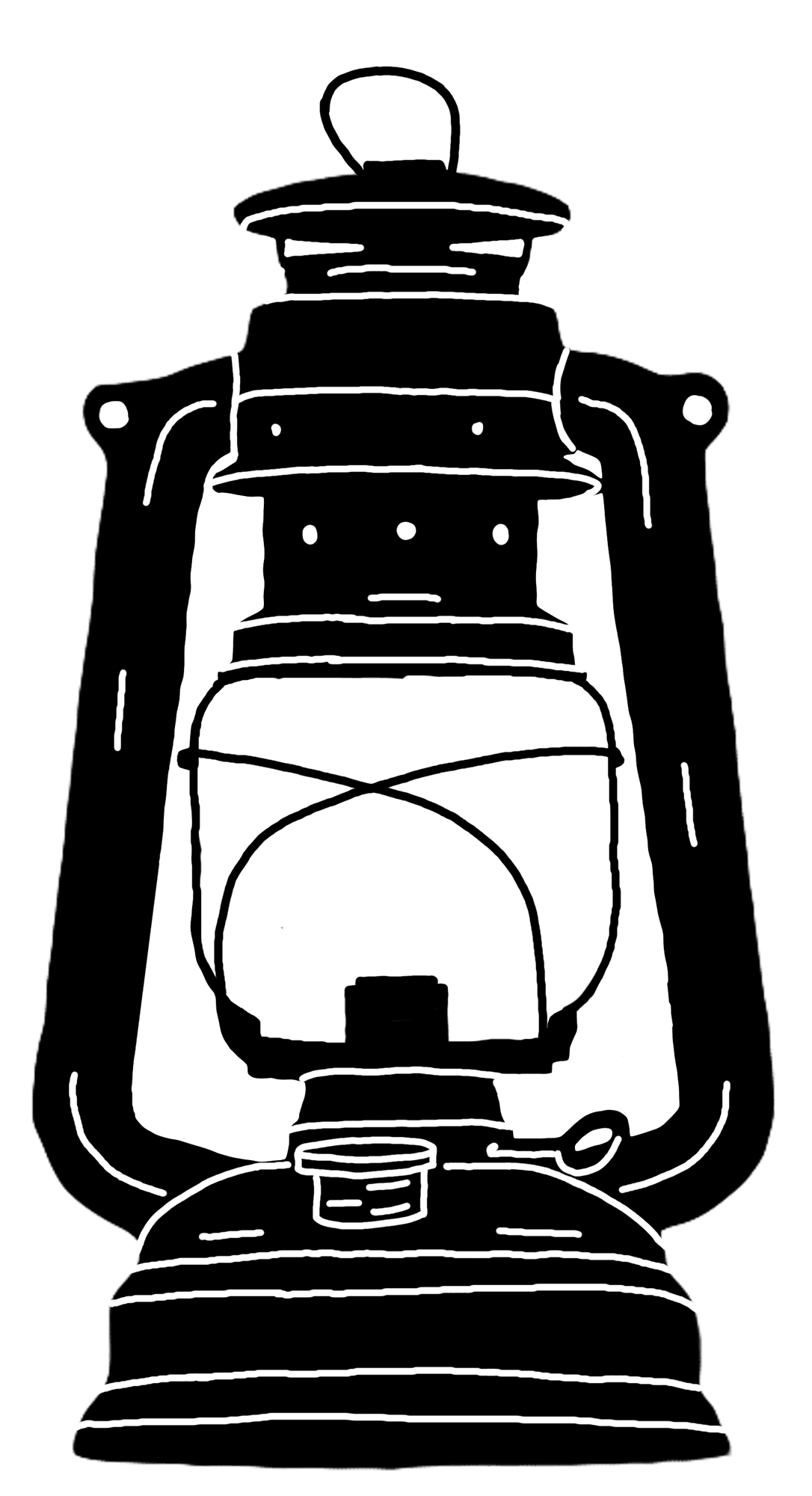 Feuerhand Kerosene lamp